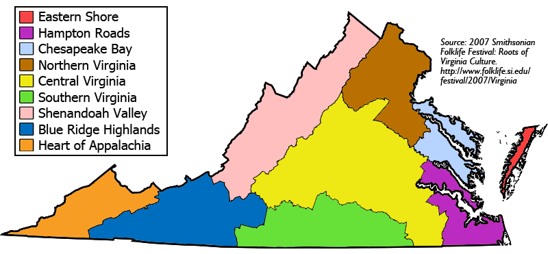 Color coded map of nine cultural regions of Virginia